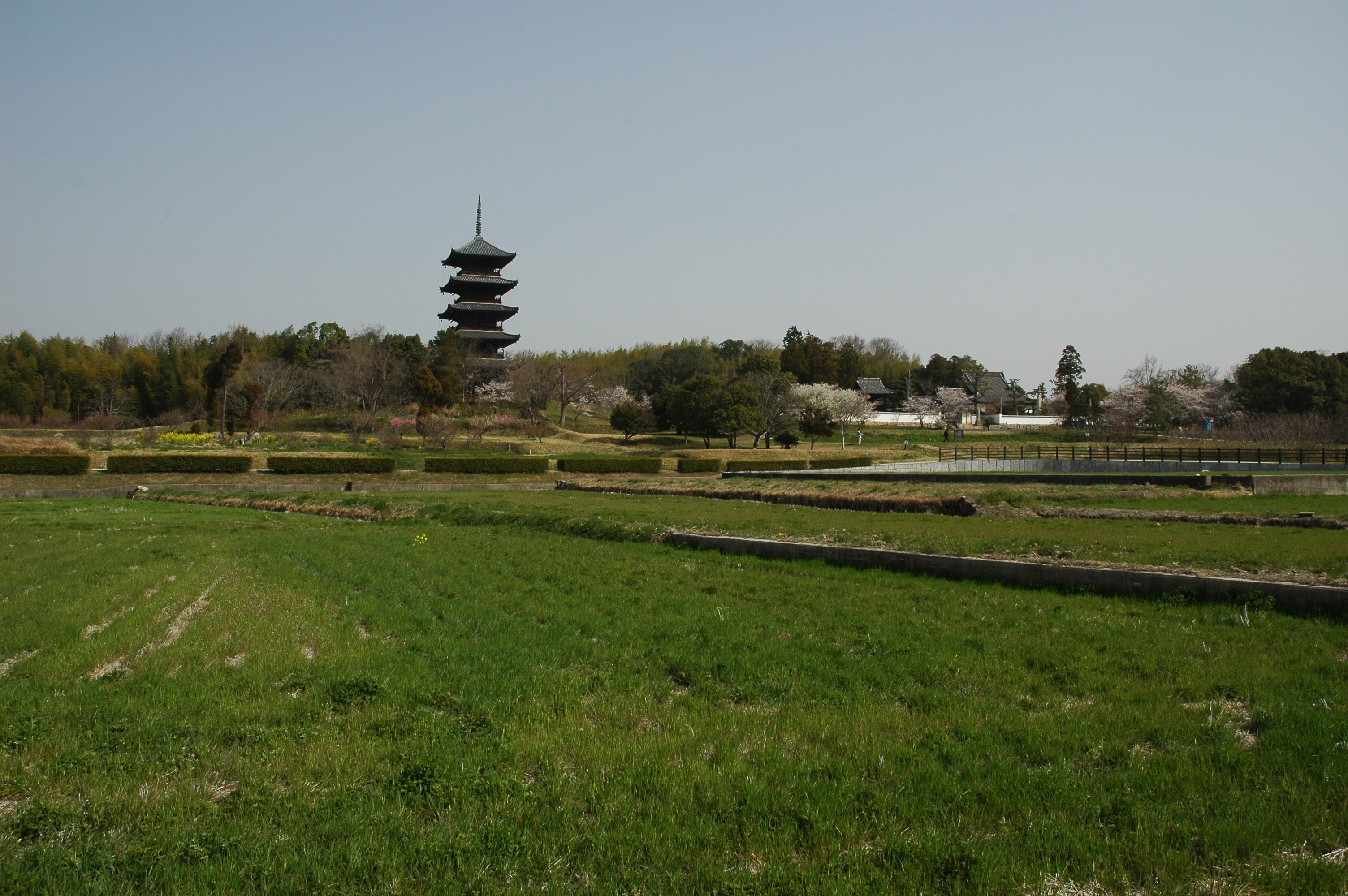 over view of Bitchu Kokubunji